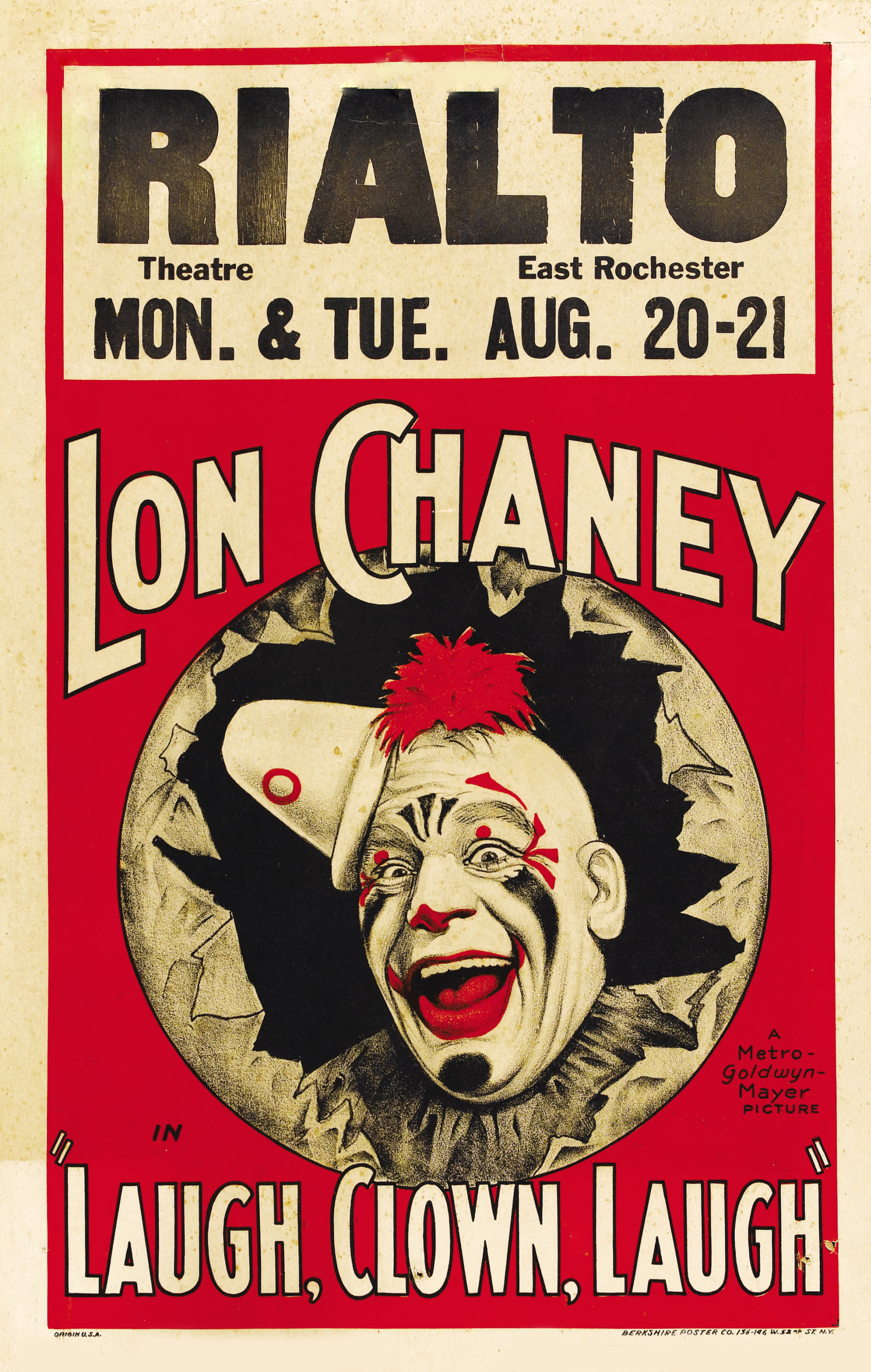 Film poster for the American drama film Laugh, Clown, Laugh (1928).